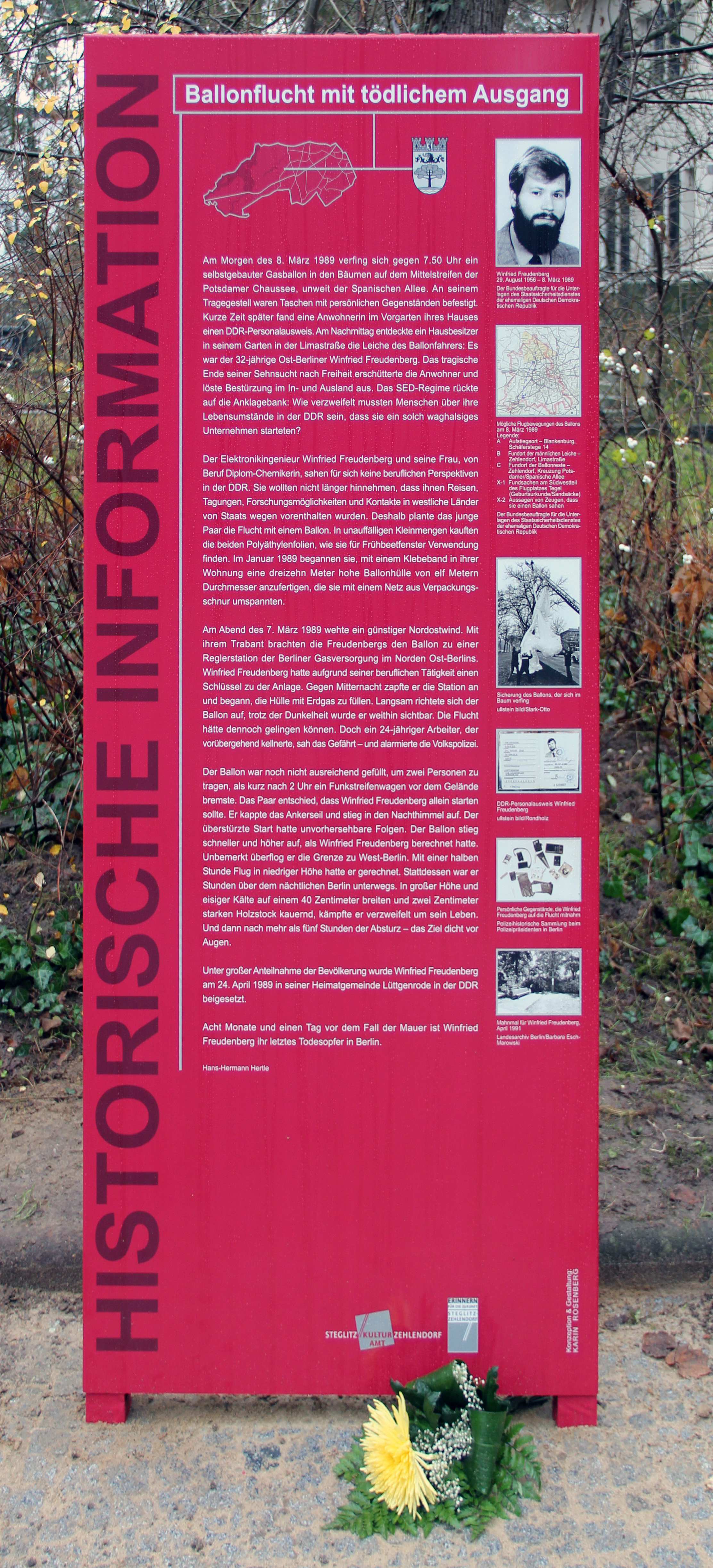 Memorial plaque, Winfried Freudenberg, Erdmann-Graeser-Weg, Berlin-Zehlendorf, Germany